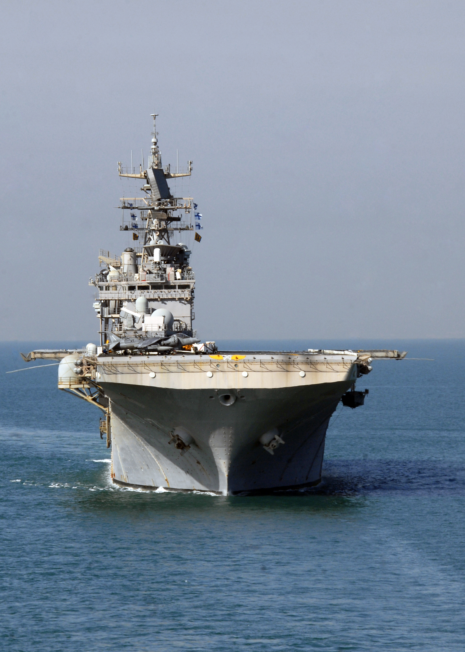 PERSIAN GULF (Jan. 12, 2009) The multi-purpose amphibious assault ship USS Iwo Jima (LHD 7) transits the Persian Gulf. Iwo Jima is deployed as part of the Iwo Jima Expeditionary Strike Group supporting maritime security operations in the U.S. 5th Fleet area of responsibility. (U.S. Navy photo by Mass Communication Specialist 2nd Class Katrina Parker/Released)